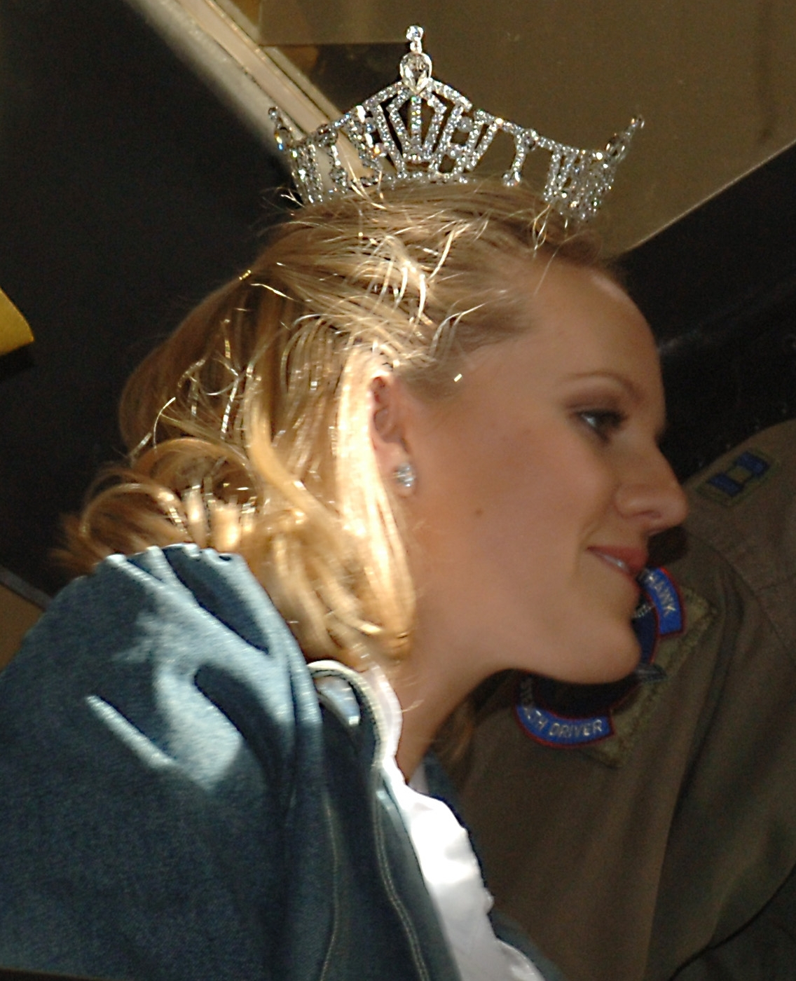 Miss New Mexico, Christina Hall, congratulated a recent retiree and got a close look at an F-117A Nighthawk Feb. 23 during a quick visit to Holloman.